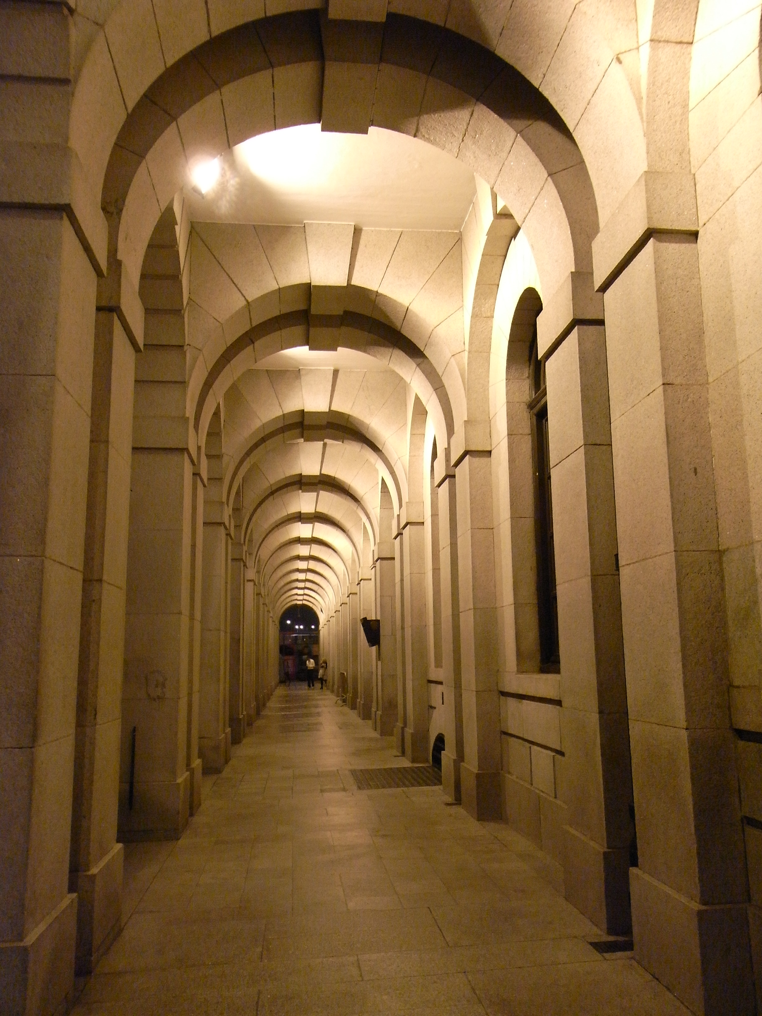 2010年2月zh:香港中環